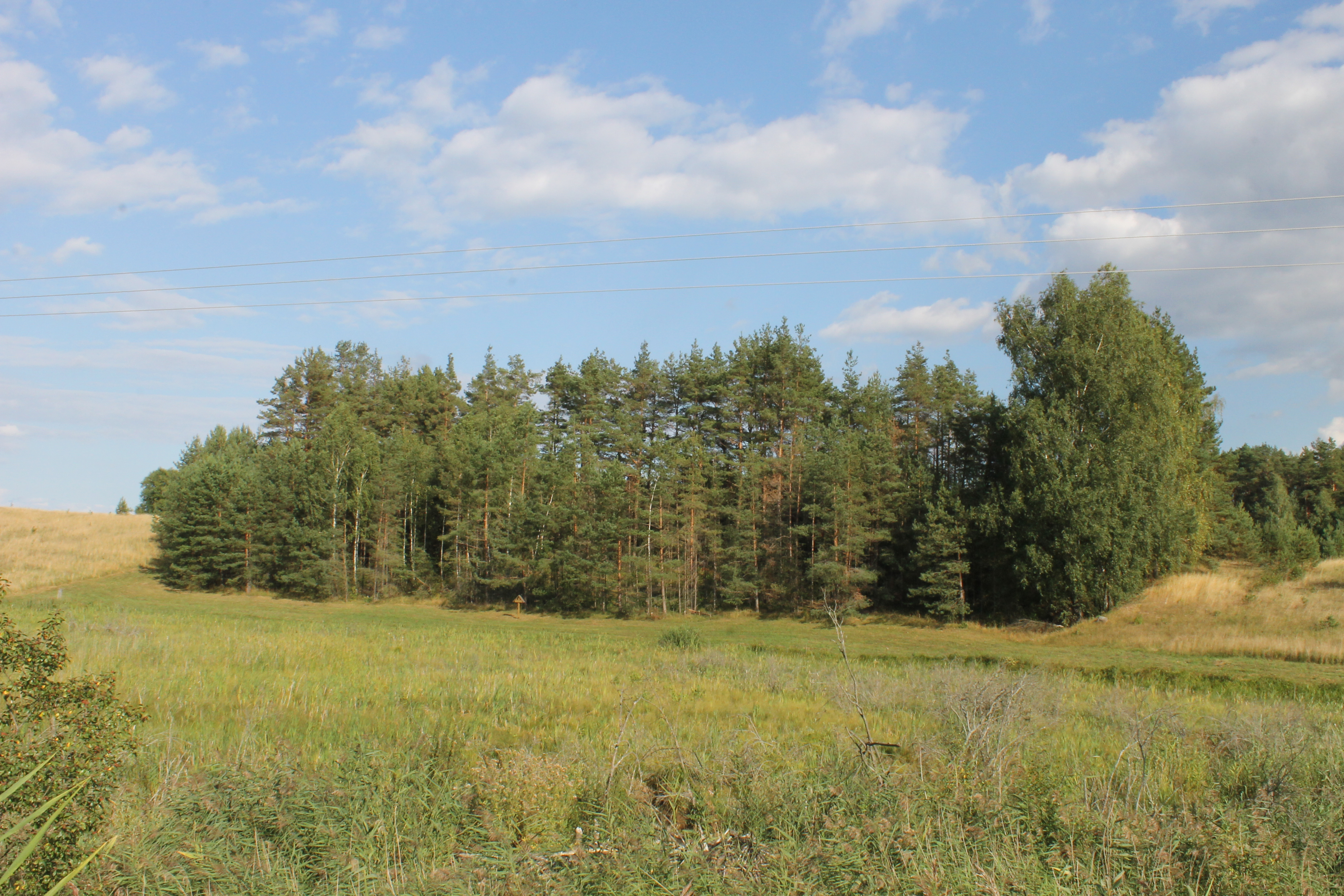 Dainaviškiai old cemetery, Lazdijai municipality, LithuaniaLietuvių: Dainaviškių senkapiai, Lazdijų r. savivaldybė, Lietuva